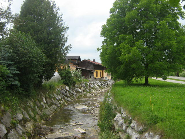 Little river in the middle of Thalgau